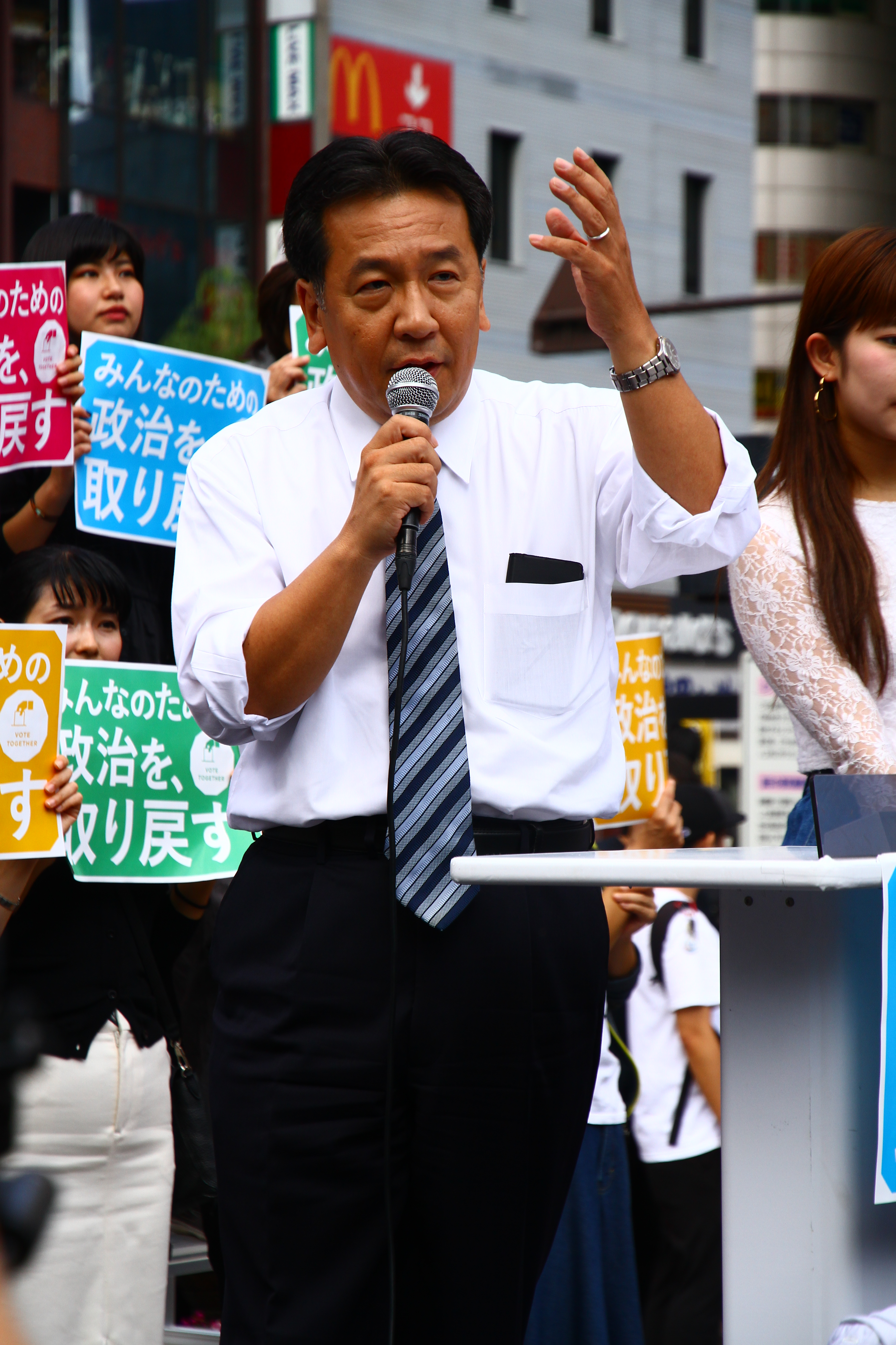 Yukio Edano at SL Square of Shimbashi Station, Tokyo, 8 October 2017.